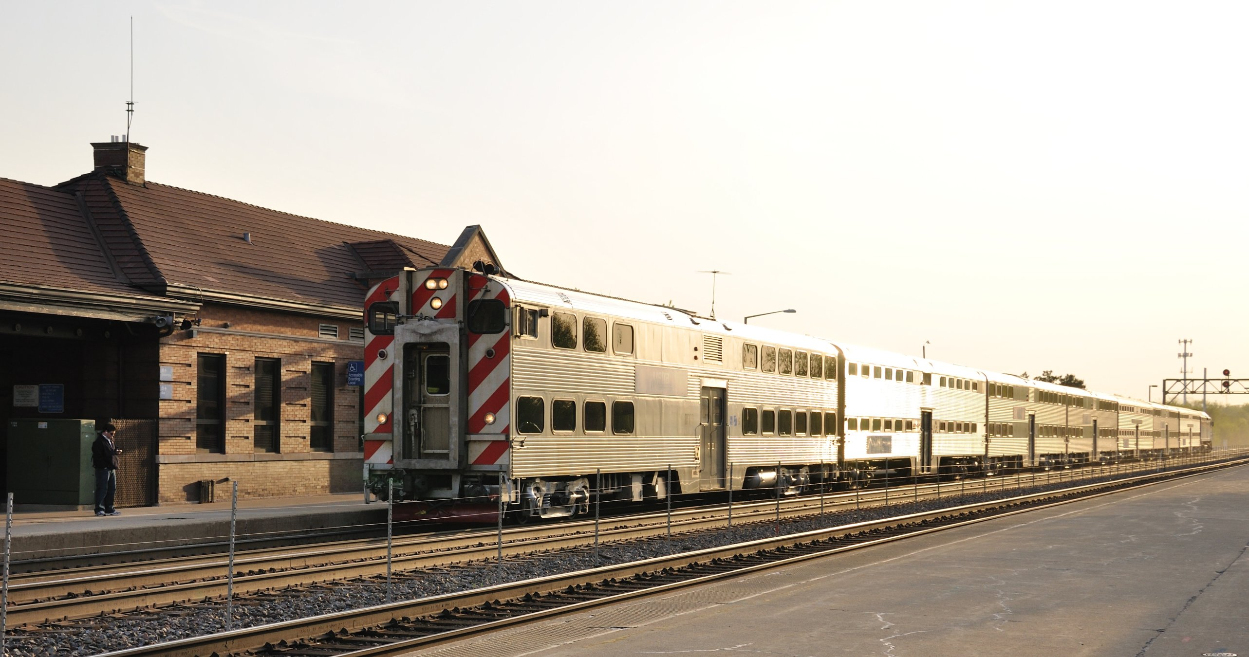 Metra train No. 1292 arrives at Naperville station (a bit late) on this late Tuesday afternoon.